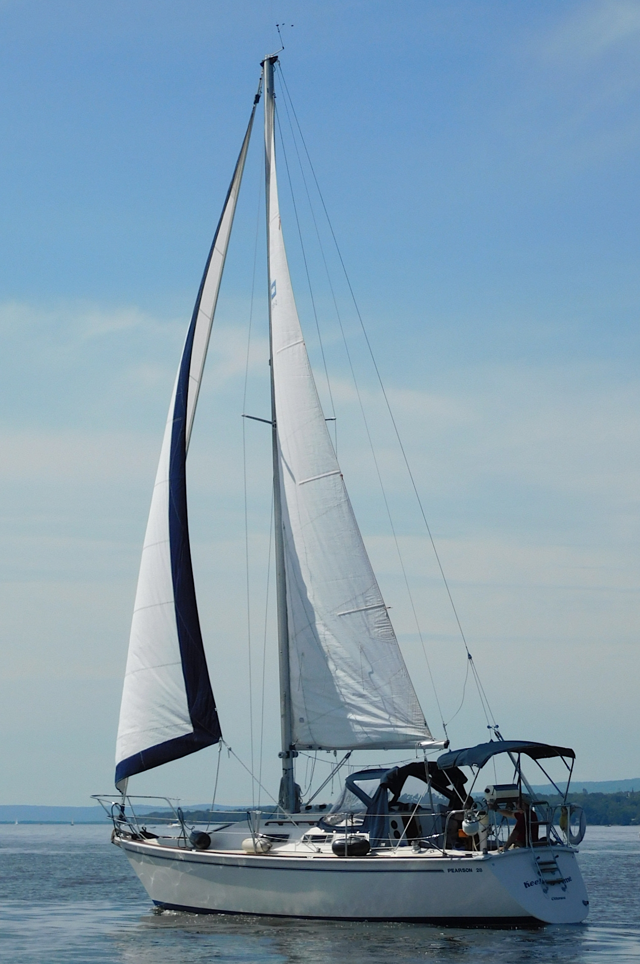 A Pearson 28-2 sailboat named Keeling Time.